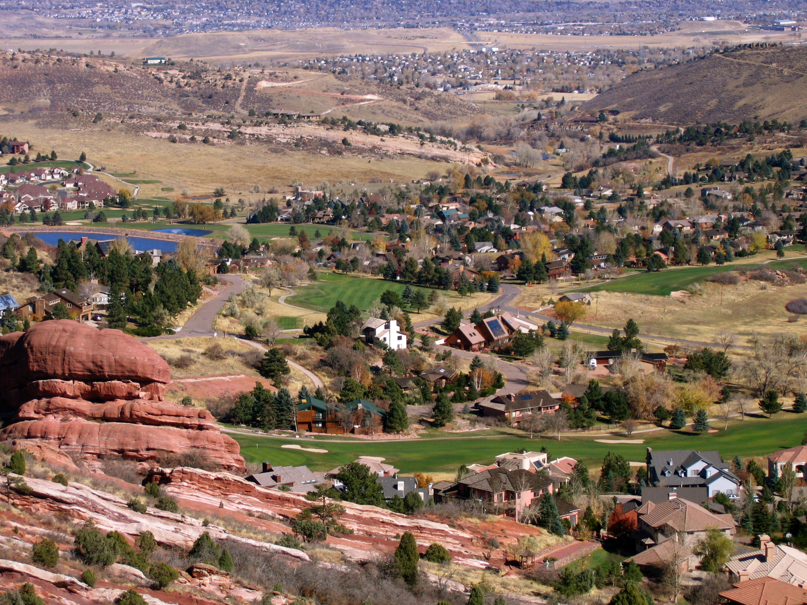 Looking down at the 16th green at RRCC.